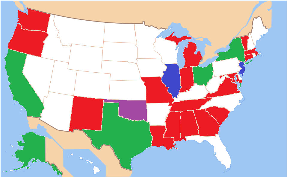 Green-Both land and naval units, Red-Land units only, Blue-Naval units only, Purple-Inactive/Suspended Note: Virginia has eliminated their riverine detachment of the Virginia Defense Force as of FY2013, thereby necessitating the color change from green to red ( New Jersey's naval unit was stood down in 2002 but may still reactivate under current legal authority. North Carolina's State Defense Militia was "temporarily suspended" in 1996 for a workman's compensation law review and the suspension has yet to be lifted.